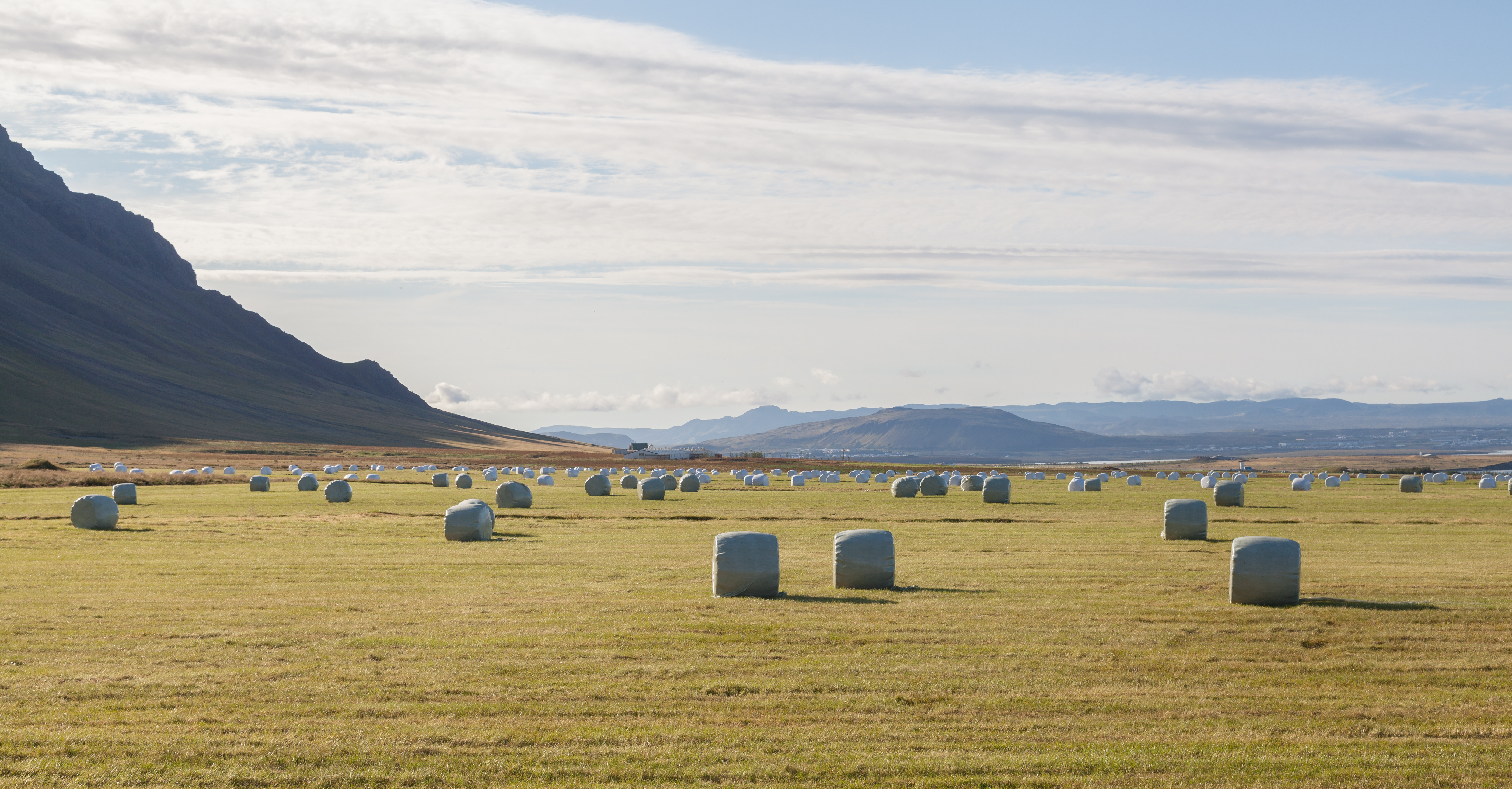 Balas de paja, Akranes, Vesturland, Iceland